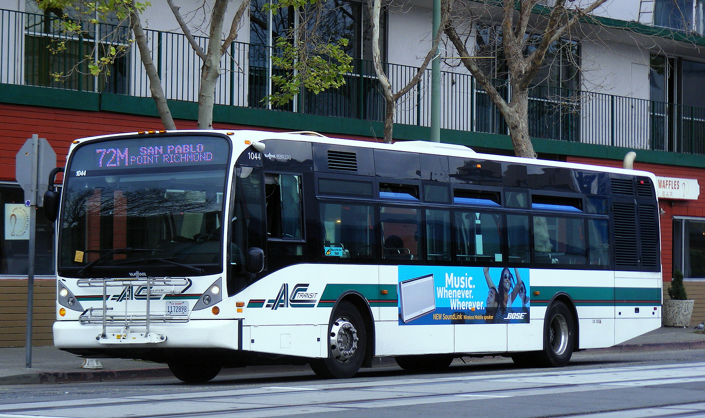 AC Transit 1044